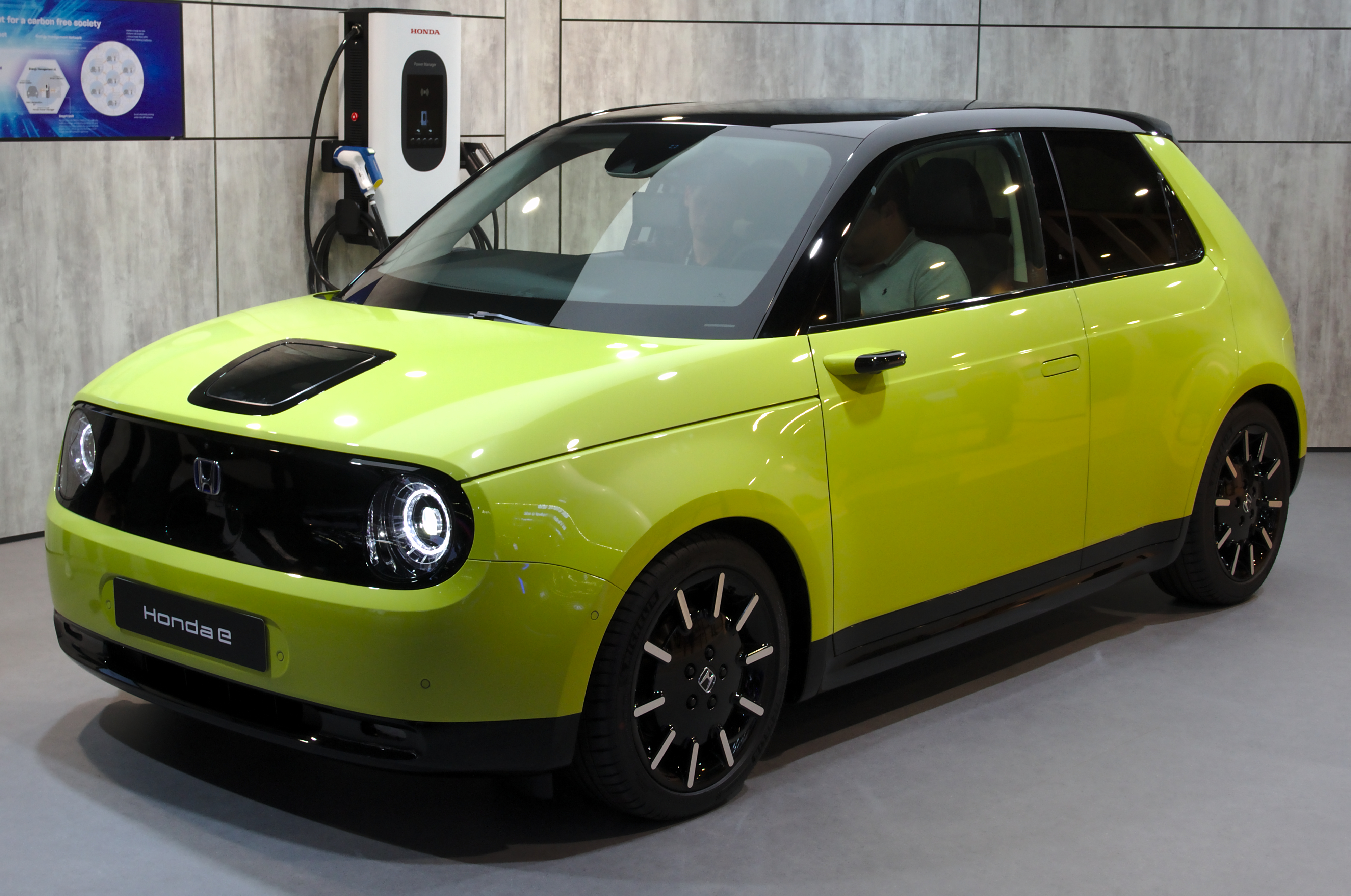 Honda_e at IAA 2019